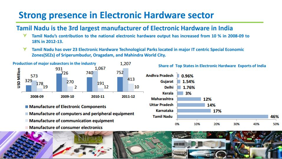 Electronic Hardware Sector in Tamil Nadu